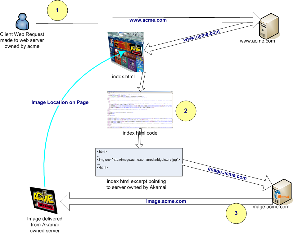 In the diagram shown, we see an "Akamaized" website; this simply means that certain content within the website (usually media objects such as audio, graphics, animation, video) will not point to servers owned by the original website, in this case ACME, but to servers owned by Akamai. It is important to note that even though the domain name is the same, namely and , the IP address (server) that points to is actually owned by Akamai and not ACME. The client's browser requests the default web page at the ACME site. The site returns the web page index.html If the HTML code is examined you can see that there is a link to an image hosted on the Akamai owned server As your web browser parses the HTML code it pulls the image object bigpicture.jpg from